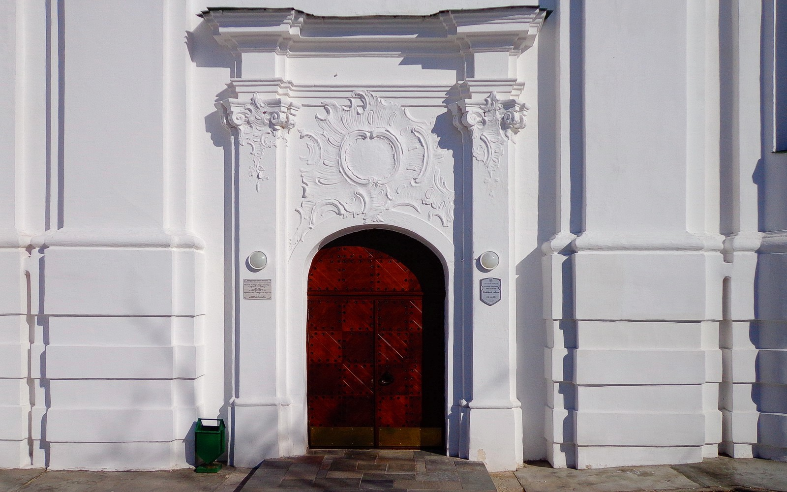 Polatsk, Belarus. Saint Sophia Cathedral.